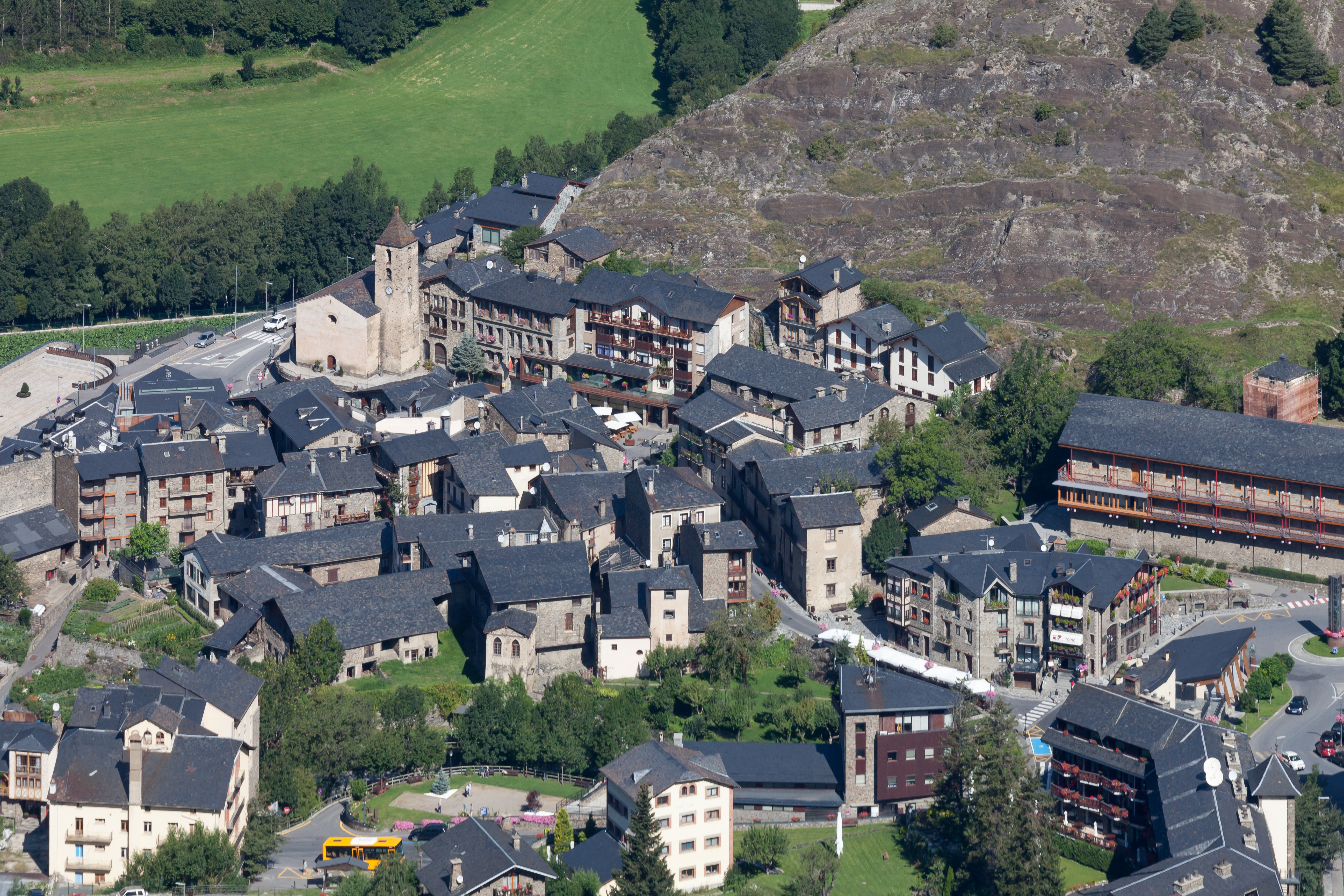 Ordino. Andorra.